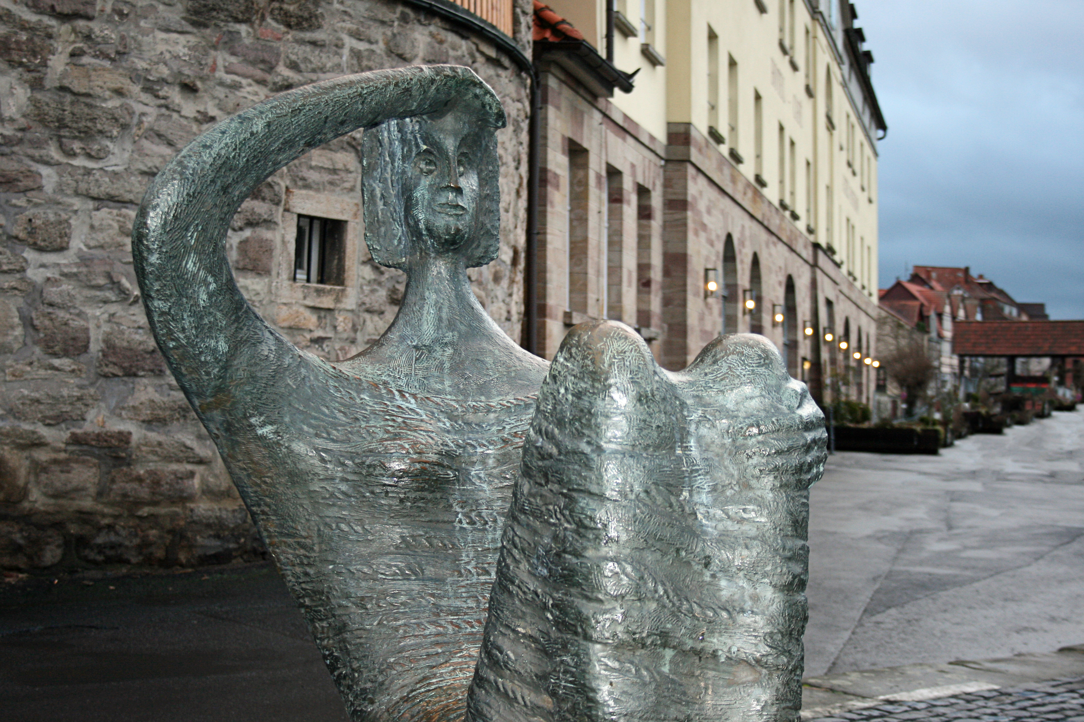 Die Schauende by Heinz Detlef Wüpper